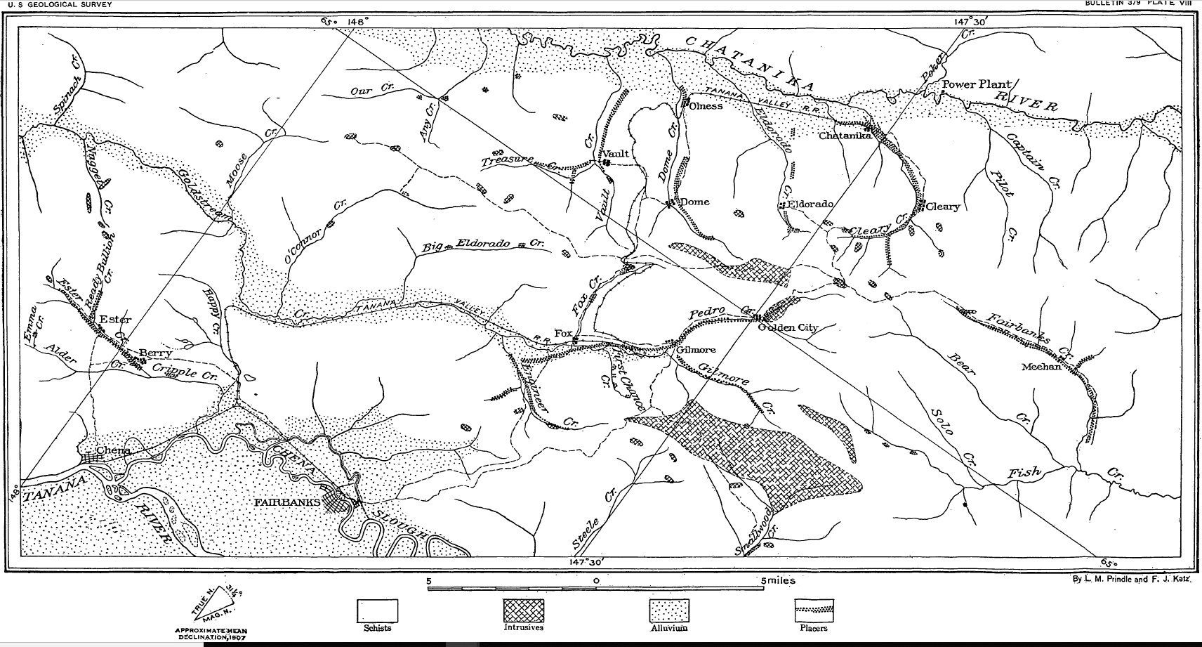 Geologic Map of the Fairbanks District